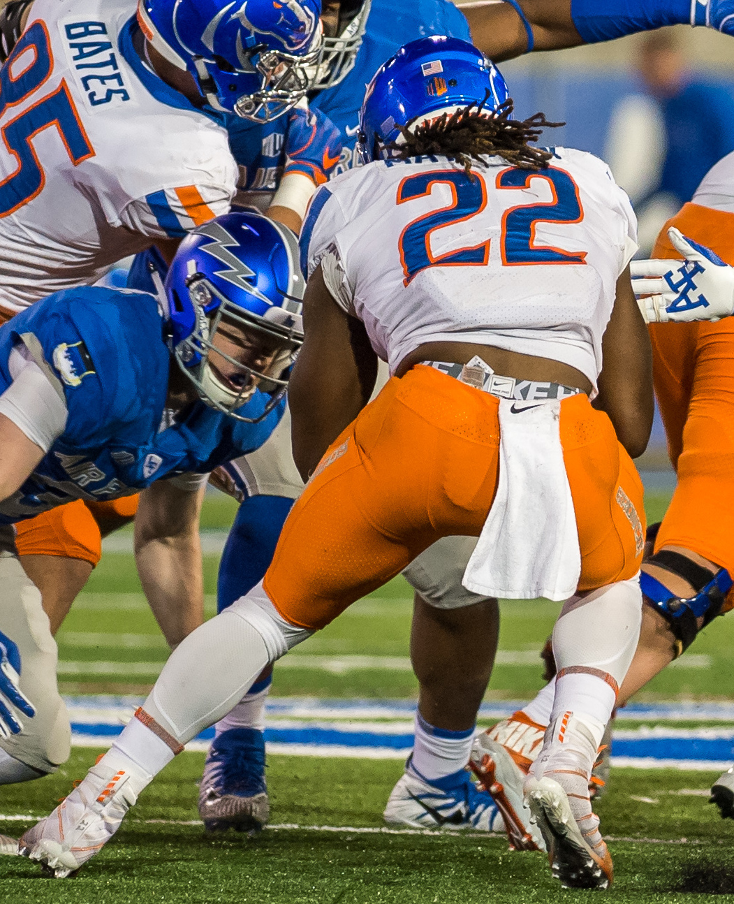 Alexander Mattison of the Boise State Broncos rushes the ball against the Air Force Falcons during a 2018 game